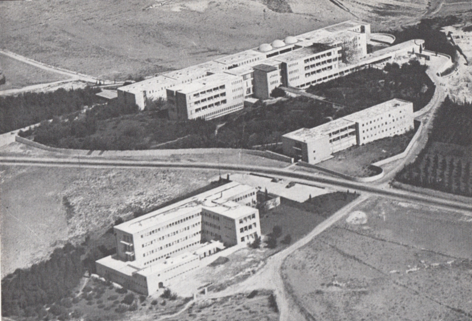 Hadassah Hospital on Mount Scopus in Jerusalem, Architecture of Israel